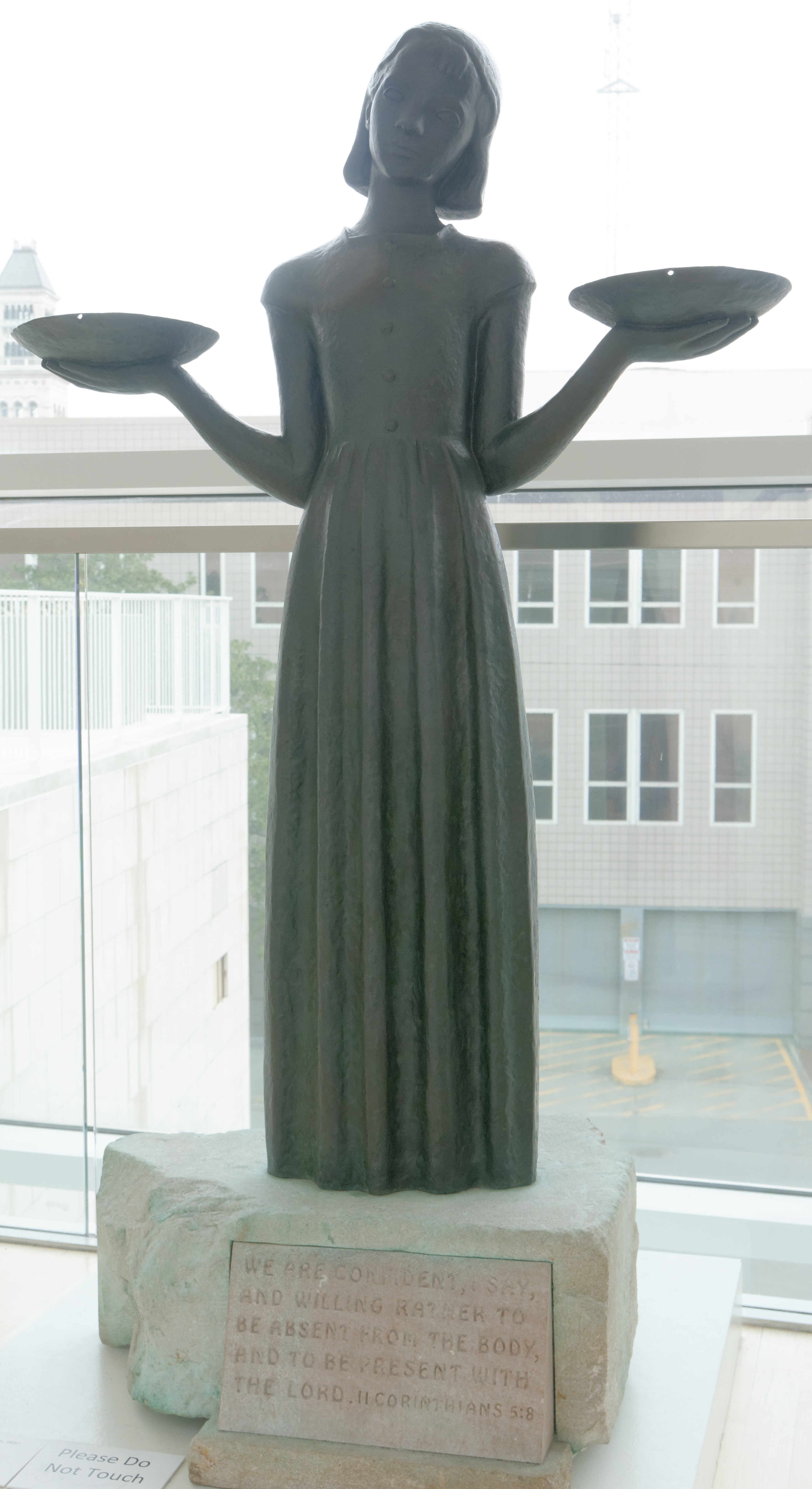 Front of the Bird Girl statue, Telfair Jspson Museum, Savannah, Georgia, US (extremely back-lit). The statue was made in 1936 by Sylvia Shaw Judson.